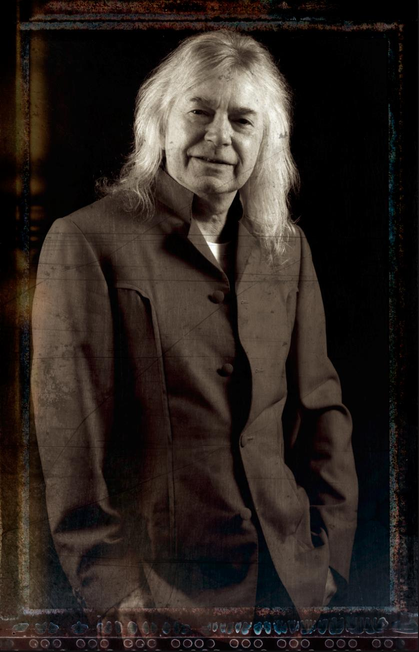 Bob Catley